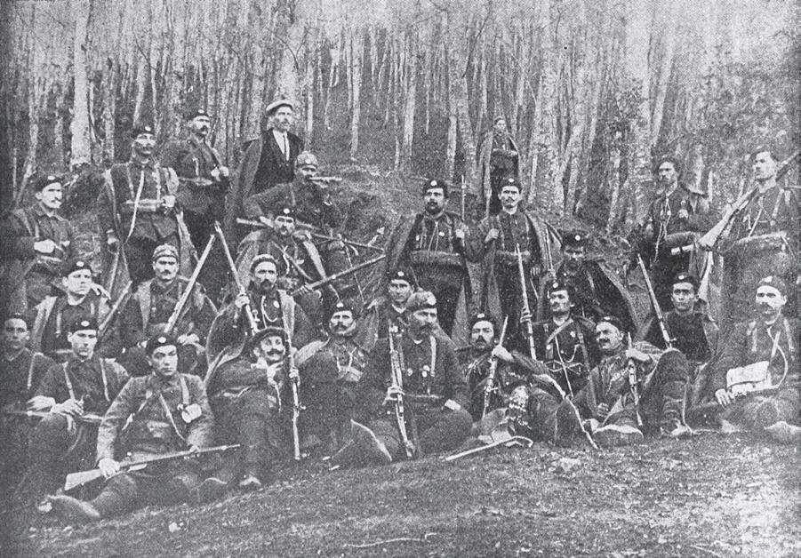 IMARO Chetas of Kumanovo and Skopie